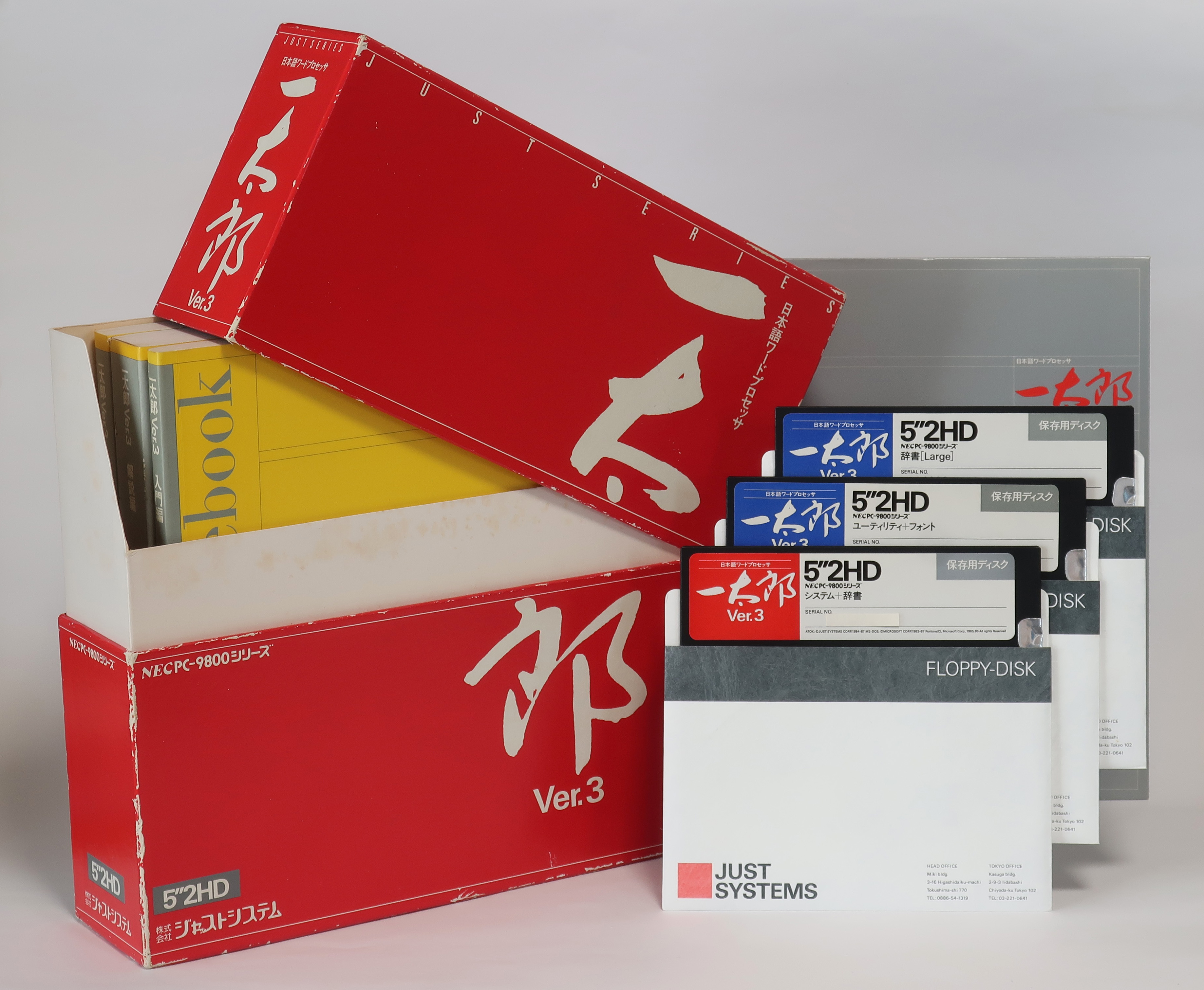 5.25 inch floppy disks and packaging for Ichitaro Version 3 released for NEC PC-9800 series by JustSystems Corporation in 1987.